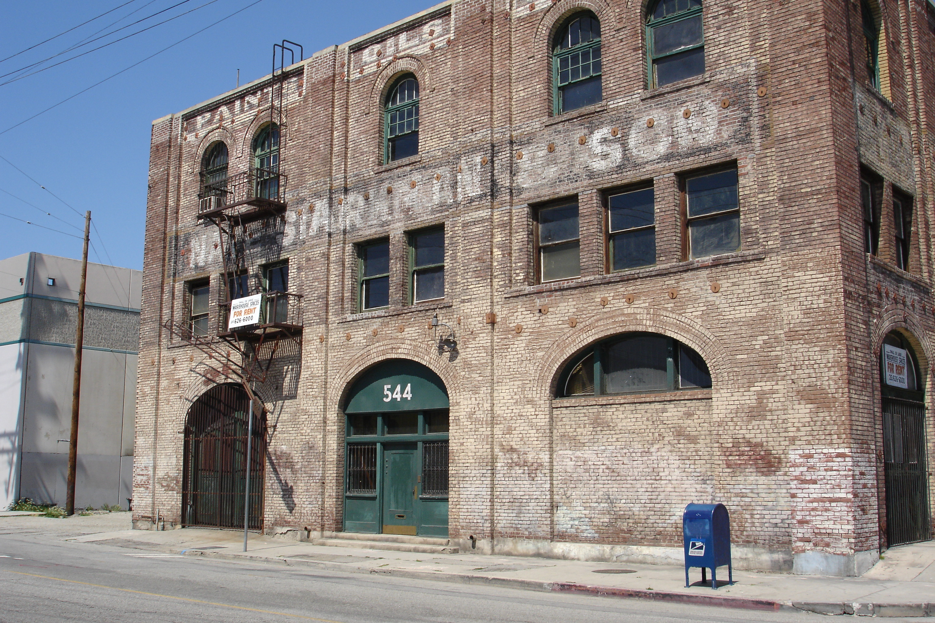 Starkman Building, 544 Mateo Street, Los Angeles.